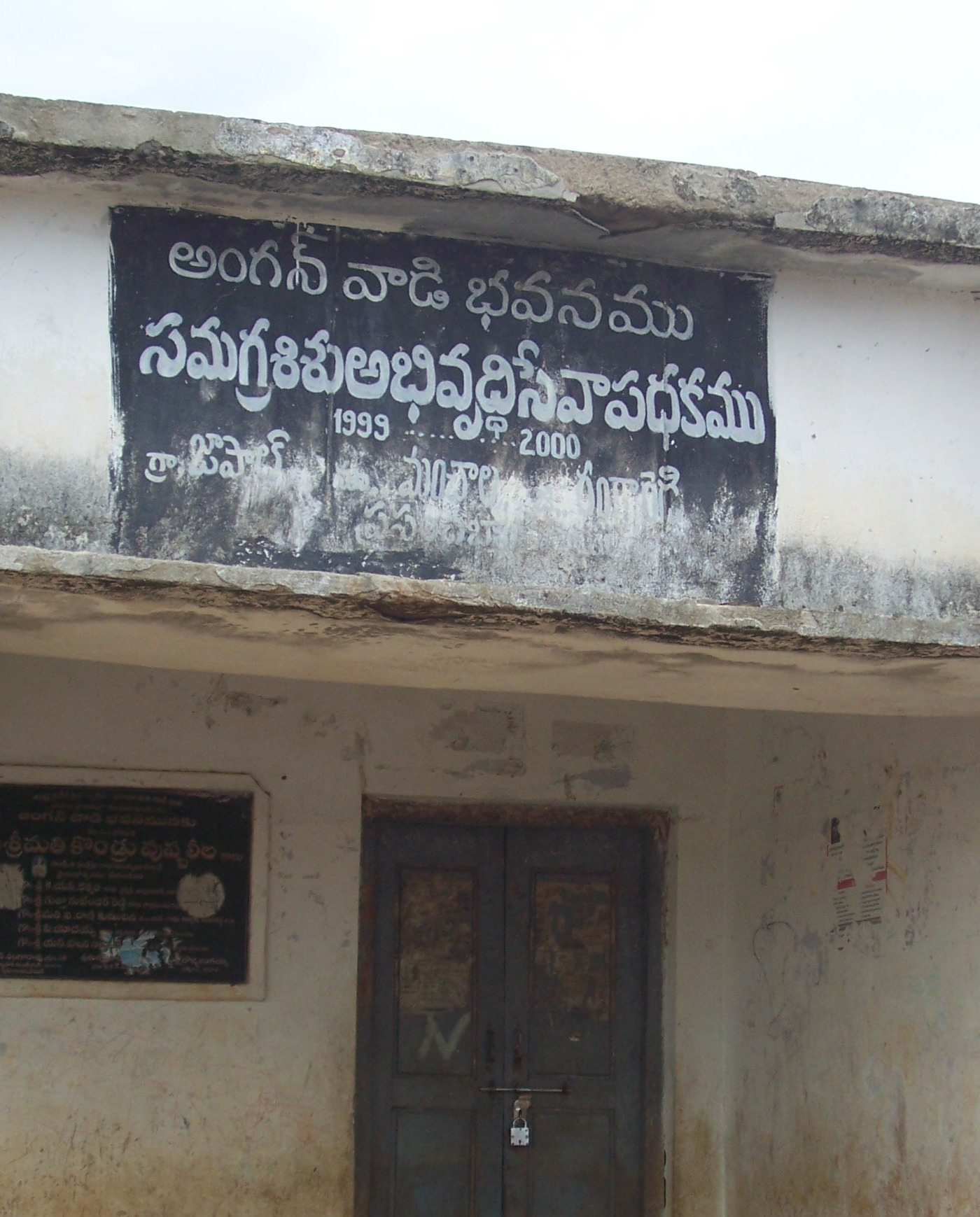 primary school .